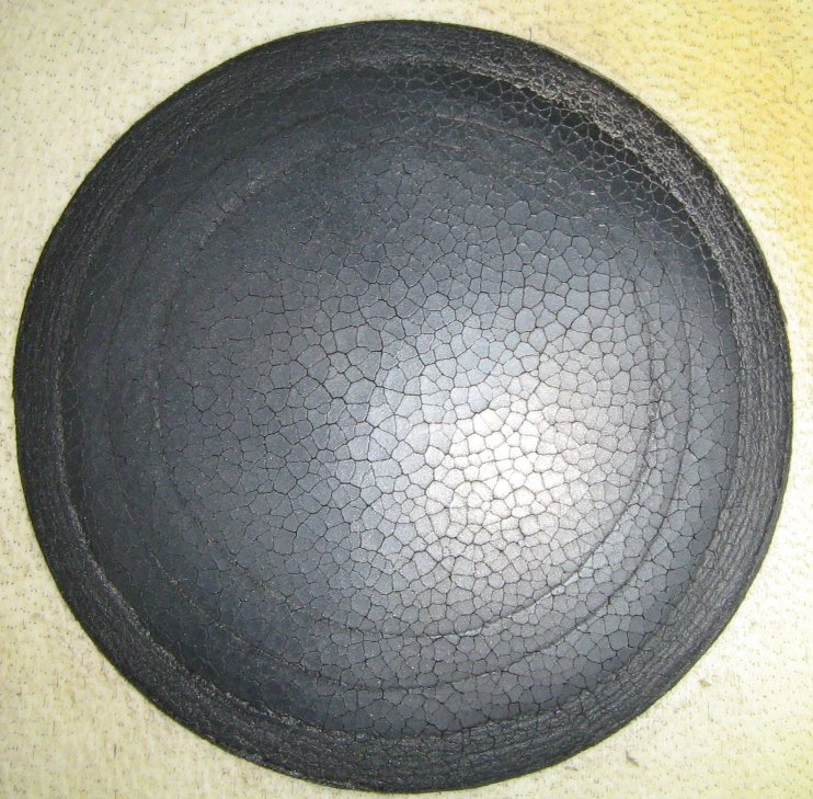 Tuning paste (siyahi) of a Bass drum of tabla Pair (baya ) from Kalkutta